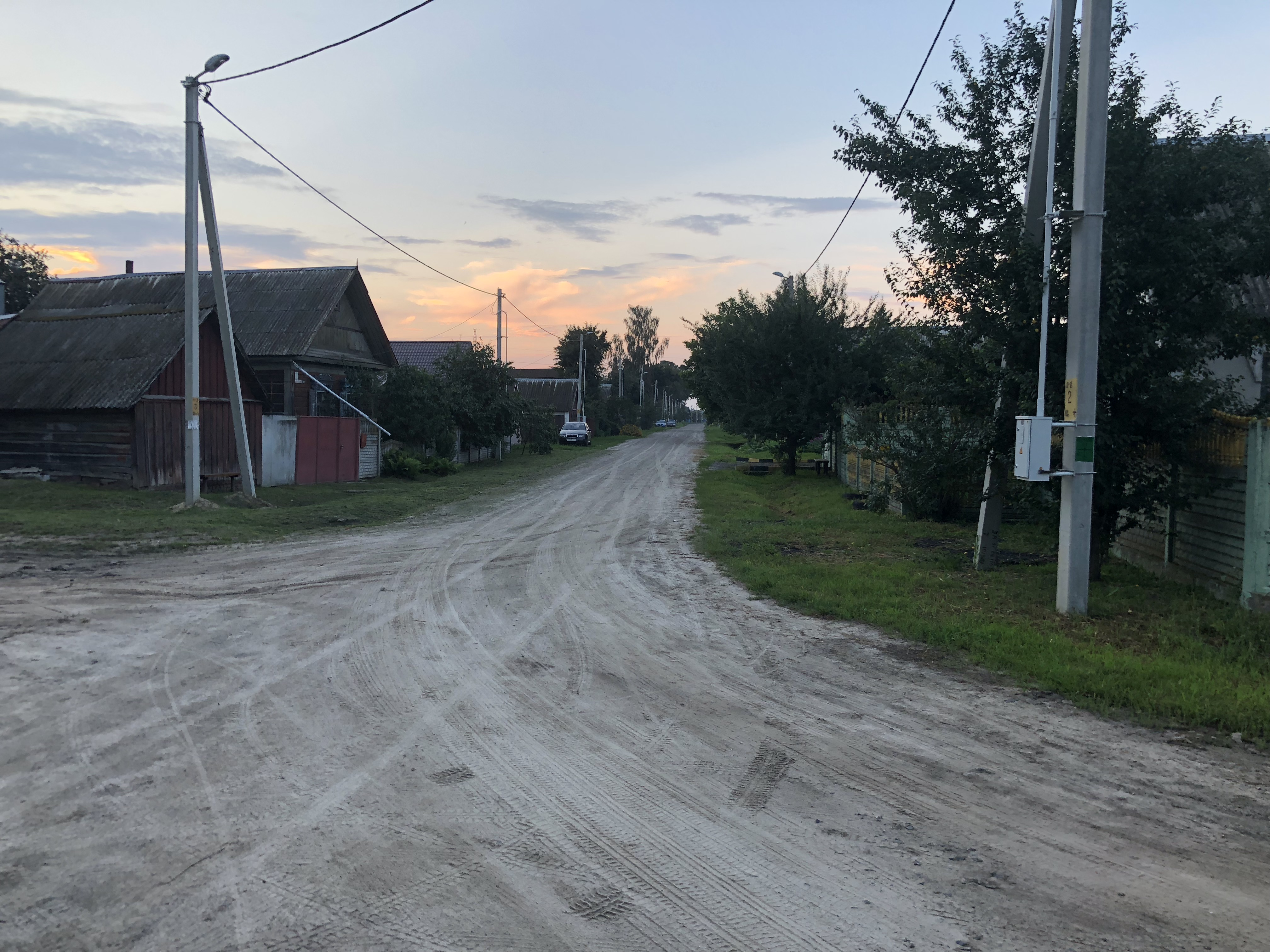 Berezki, Gomel Region, 2018 july